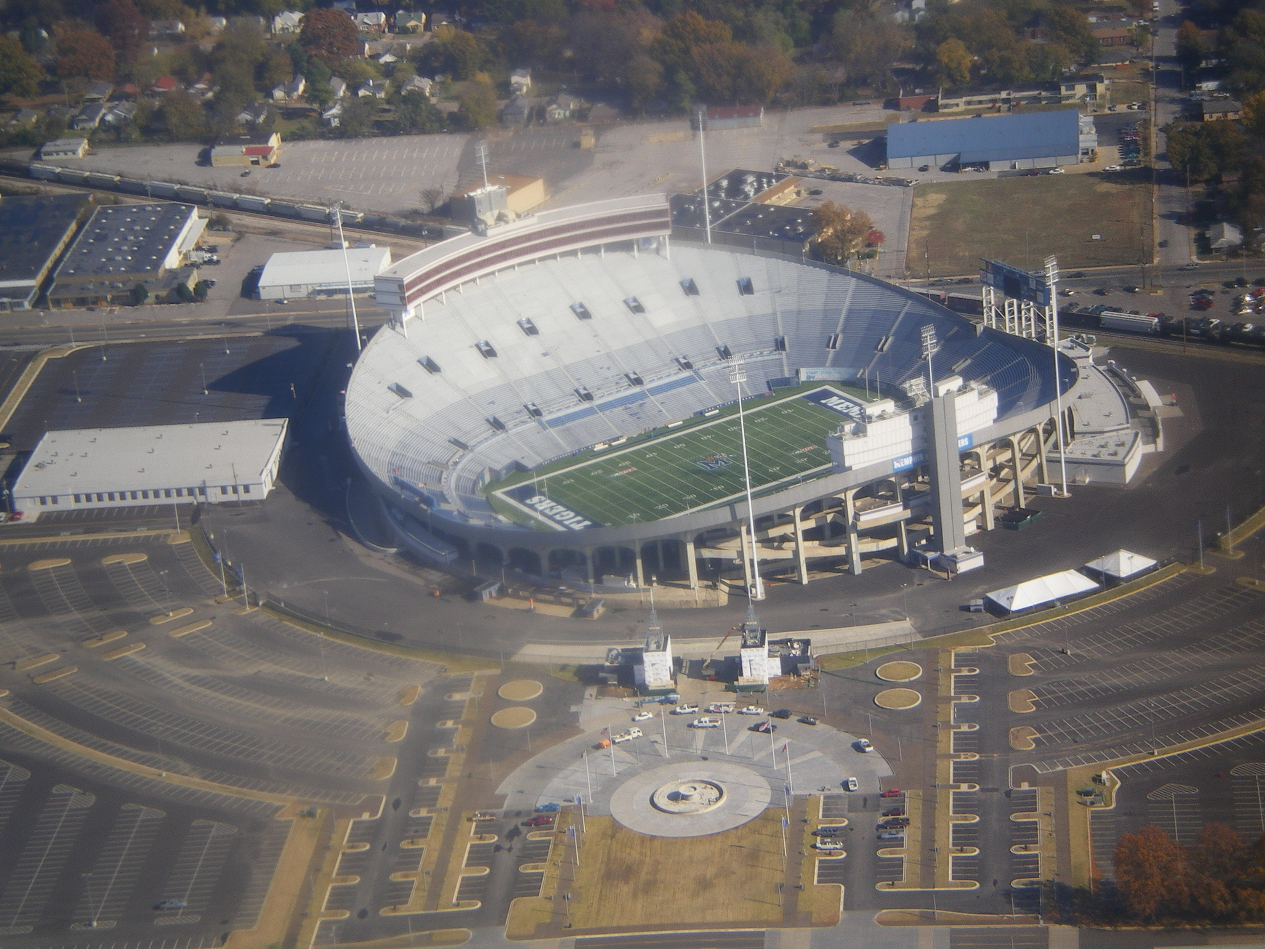 The Liberty Bowl Memorial Stadium from the air